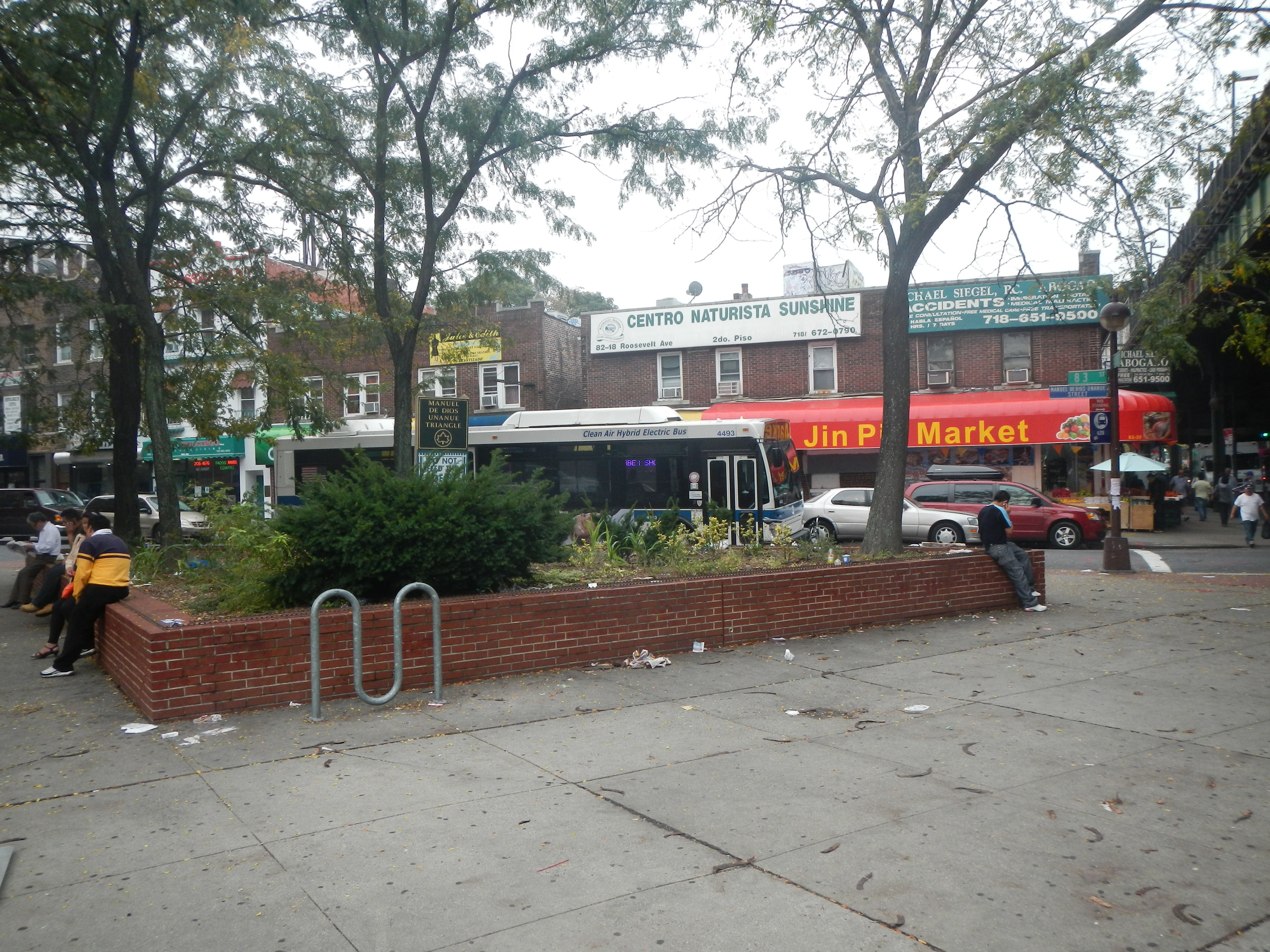 Looking southwest at Manuel de Dios Uranue Triangle on a cloudy day.